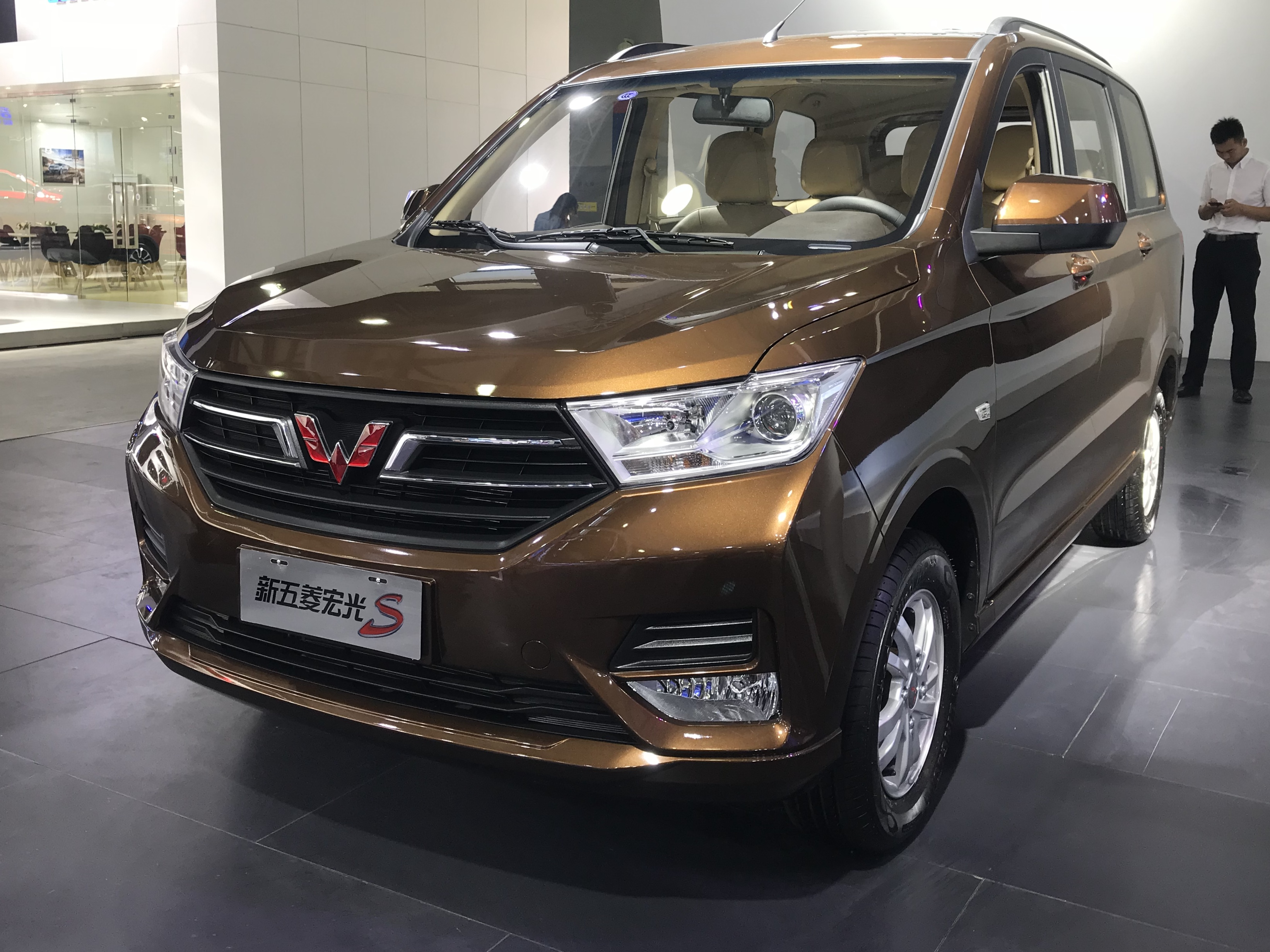 Wuling Hongguang S (Second Generation) front